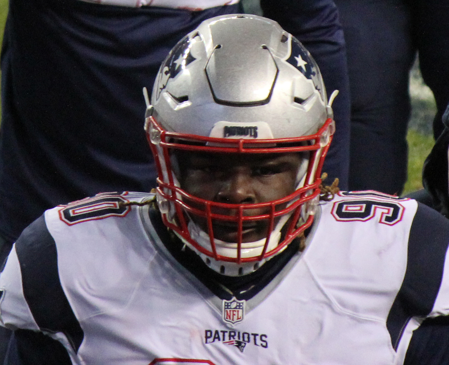 Malcom Brown, a player on the National Football League.